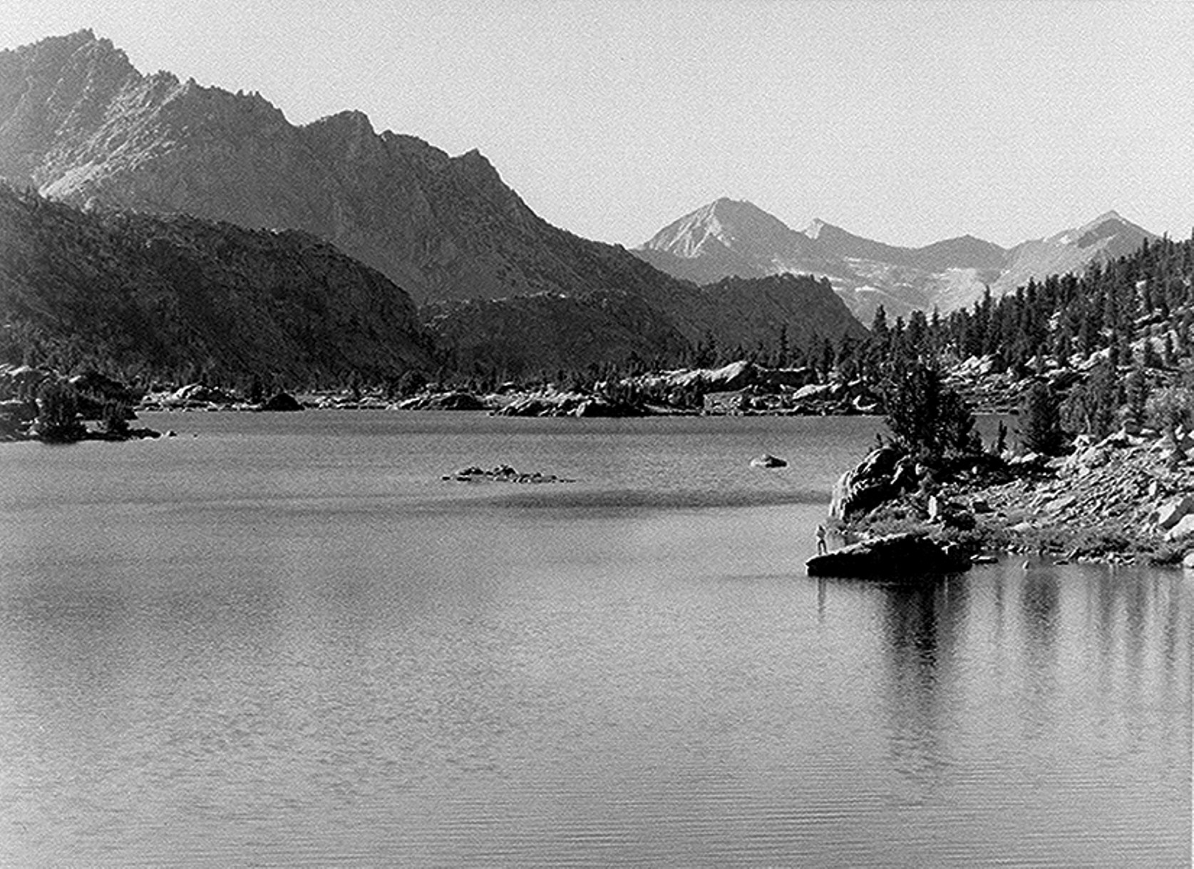 79-AAH-3 "Rae Lake." Kings Canyon circa 1930s